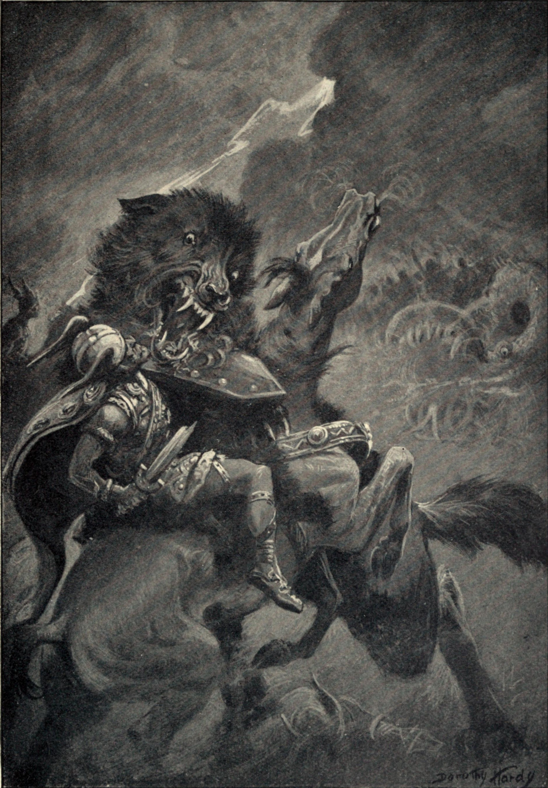 Odin and Fenris (the title given to the work in the list of illustrations on page vii).